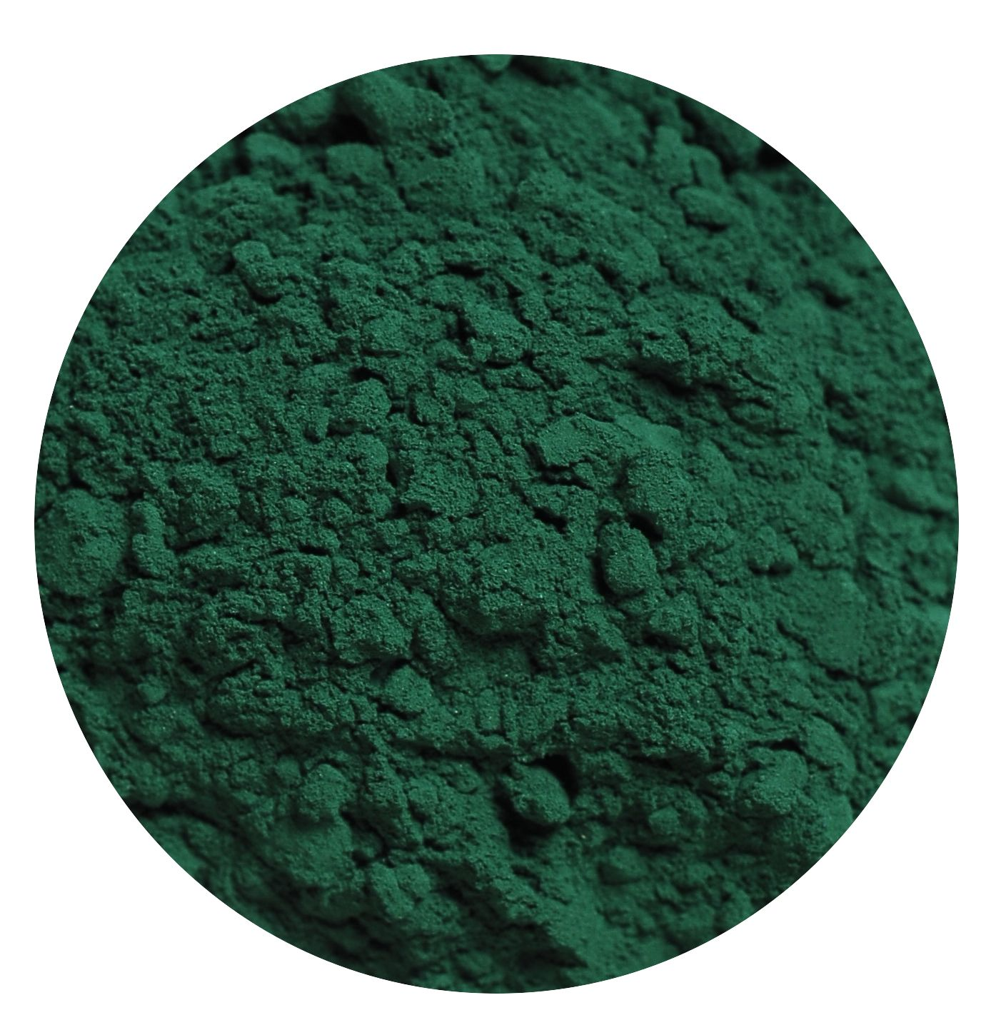 cobalt green pigment